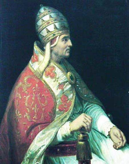 Portrait of pope Urban V